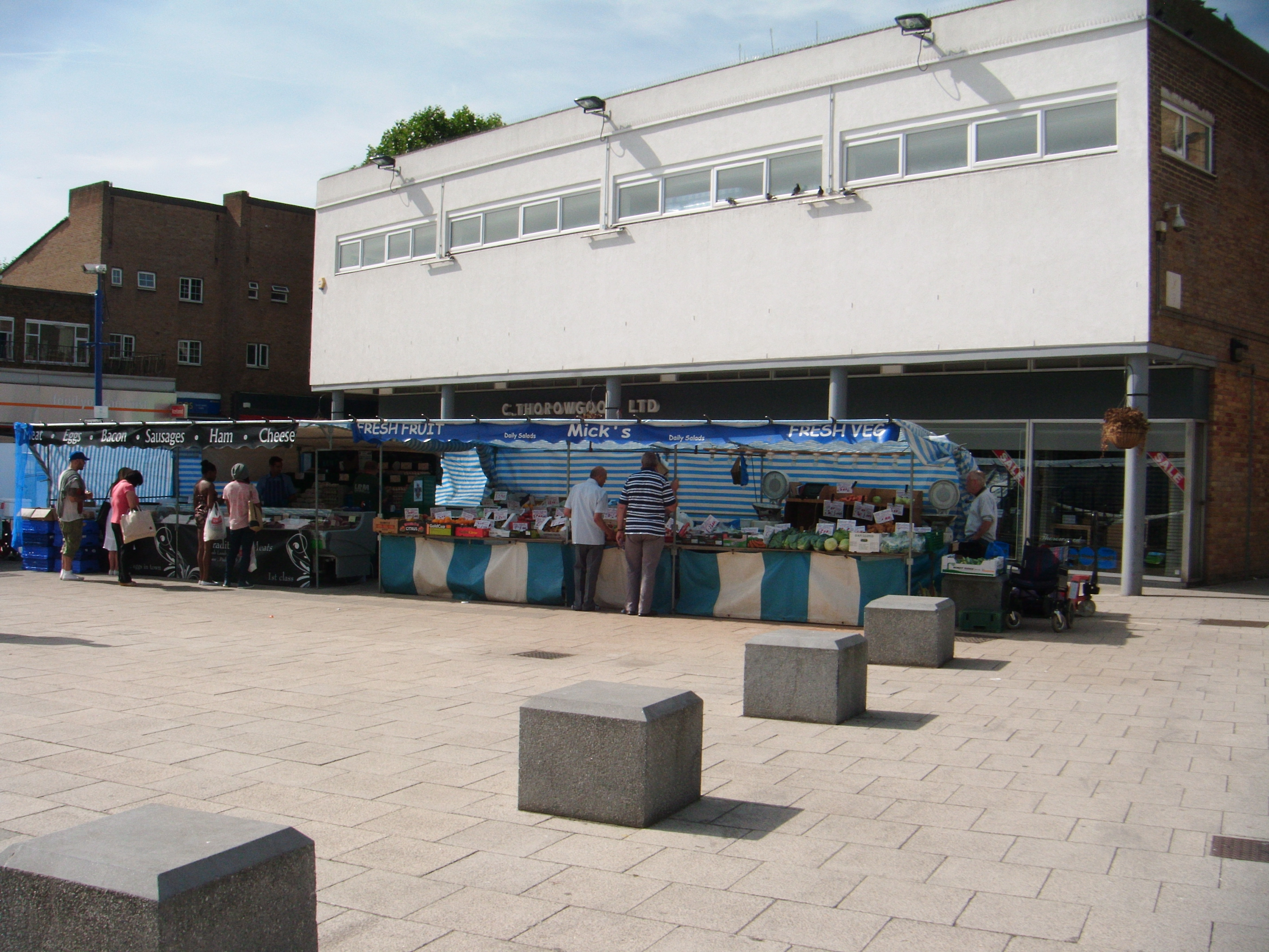 Market stalls in Bermondsey market square, Bermondsey